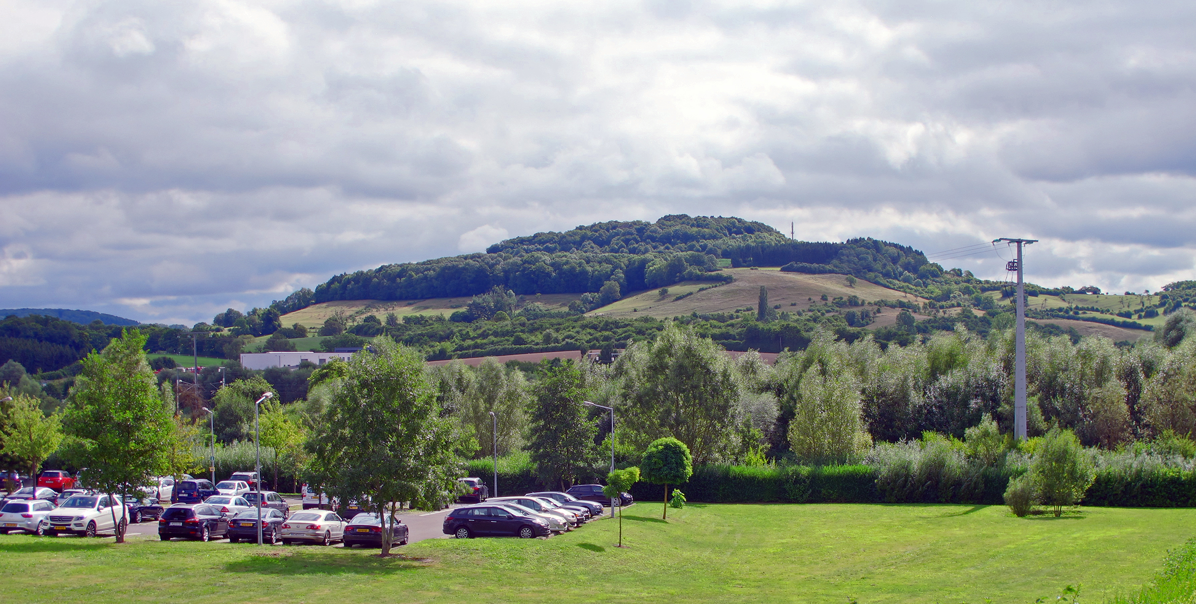 The Krékelsbierg on the ground of the municipalities of Schuttrange and Betzdorf, Luxembourg, seen from the activity zone Syrdall in MunsbachLëtzebuergesch: De Krékelsbierg um Terrain vun de Gemenge Schëtter a Betzder, gesi vun der Aktivitéitszon Syrdall zu Mënsbech